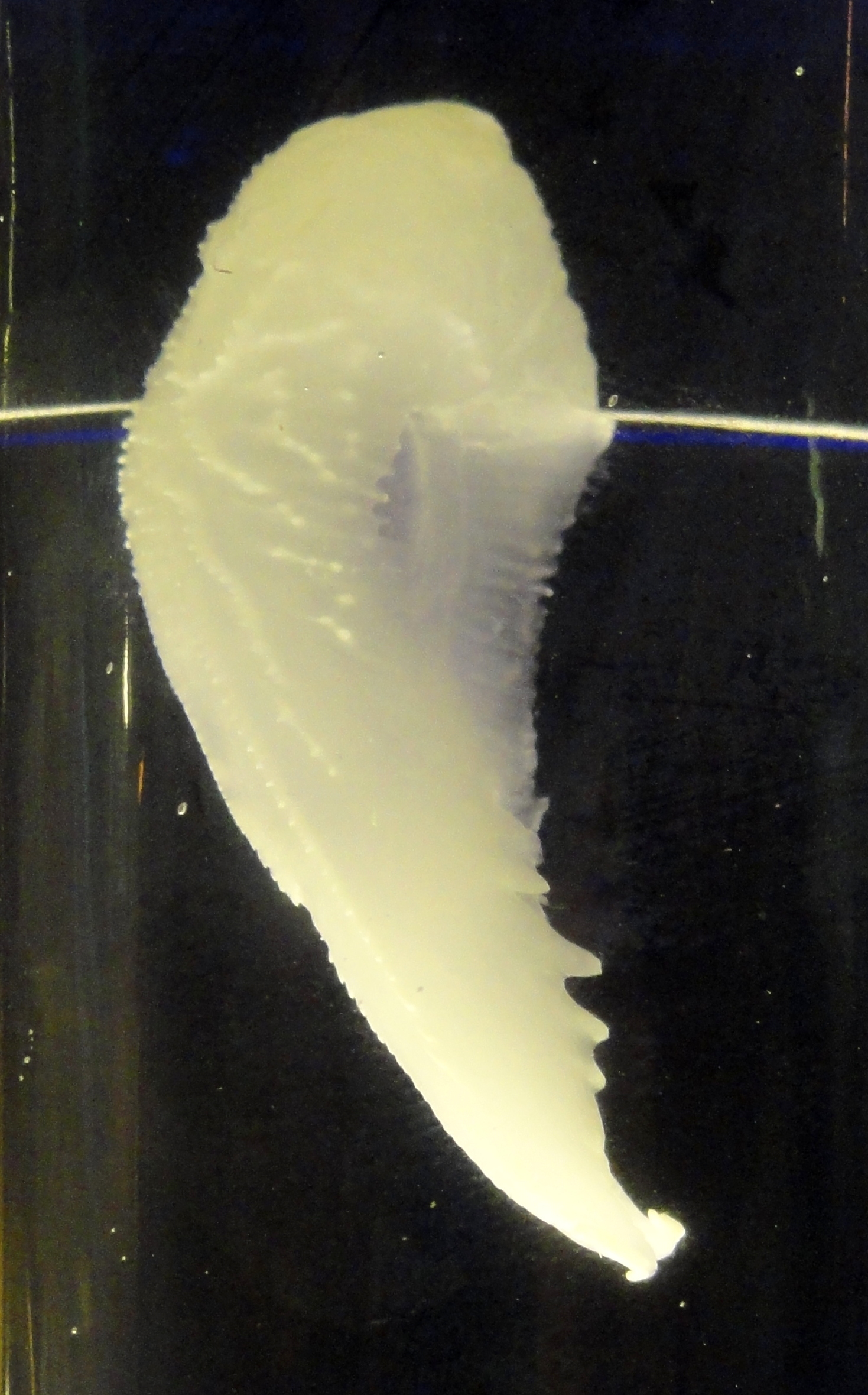 Exhibit in the Finnish Museum of Natural History, Helsinki, Finland.